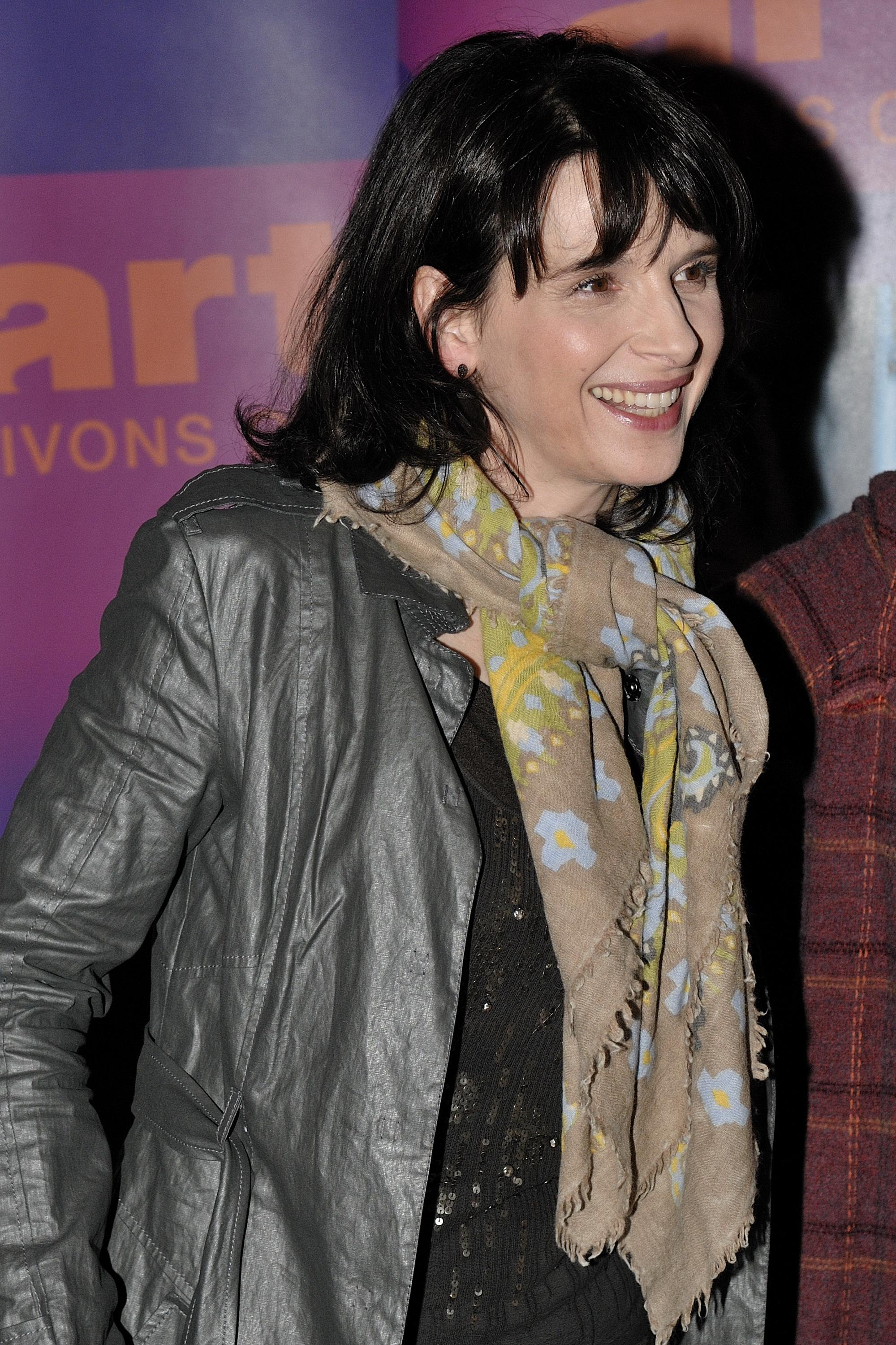 Juliette Binoche (French actress) pose prior to the screening of their movie 'Juliette Binoche dans les Yeux' held at the Elysee Biarritz movie theatre in Paris, France on October 22, 2009. Photo by Nicolas Genin/ABACAPRESS.COM